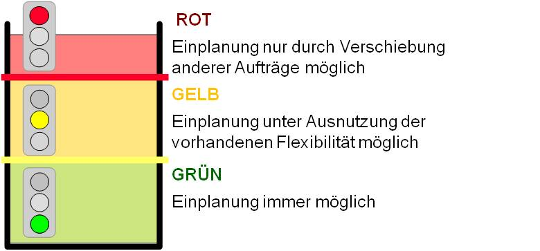 method for capacity planning in "Produzieren im Takt"